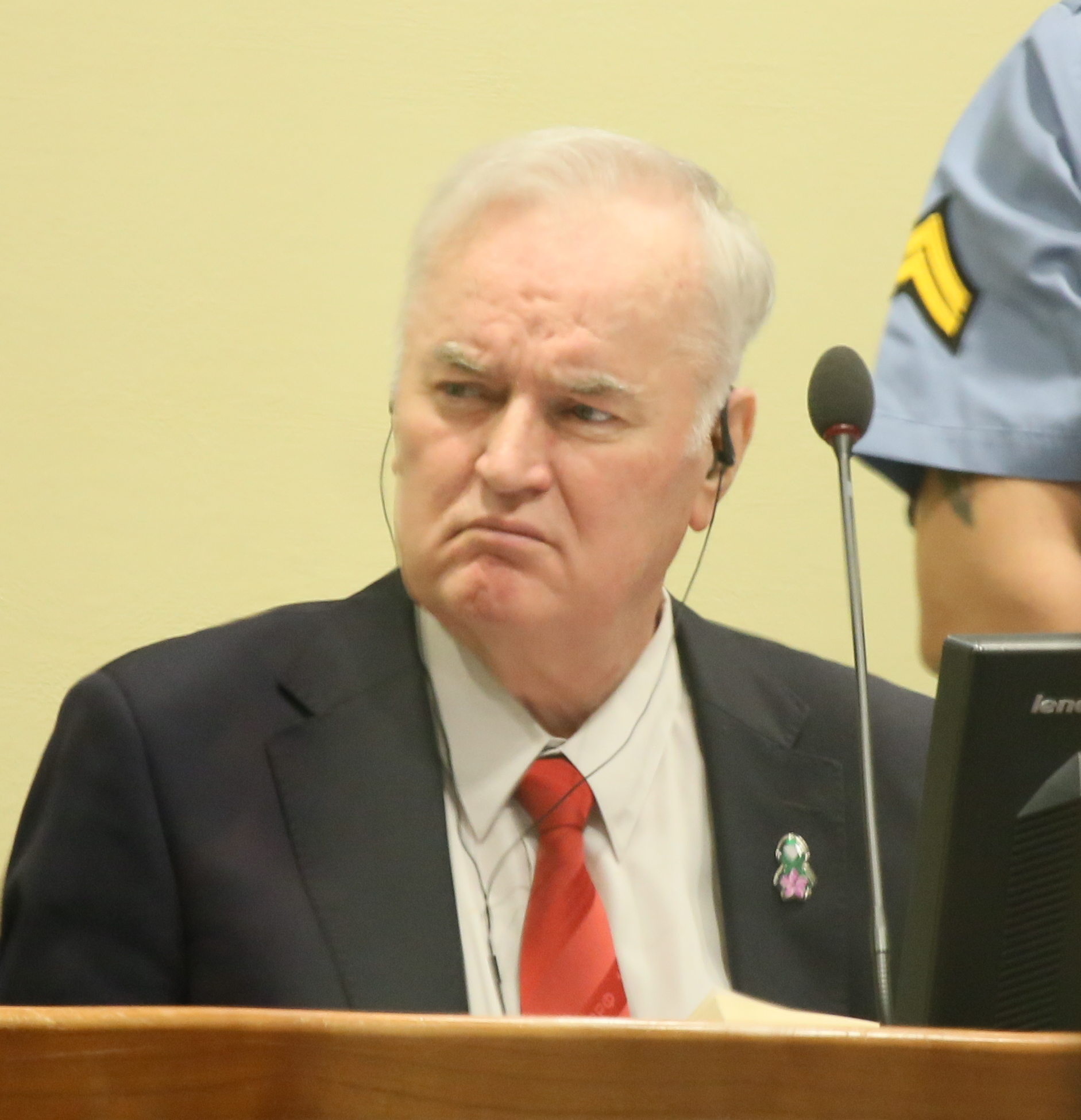 22 November 2017 - Ratko Mladić, former commander of the Bosnian Serb Army, at his trial judgement at the ICTY.